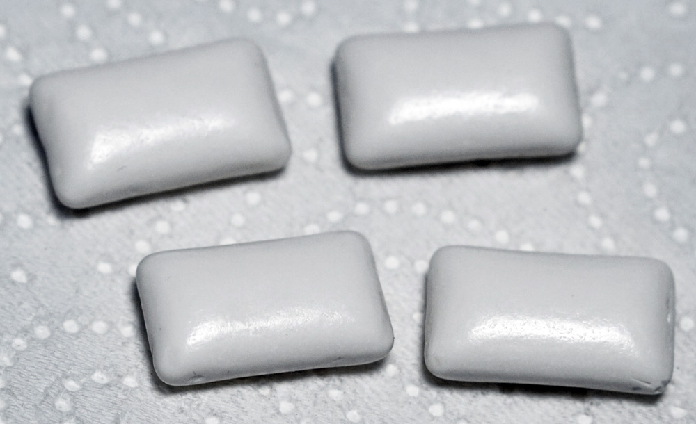 Xylitol Jenkki chewing gum. This photograph was taken with a Sony Alpha a5000.